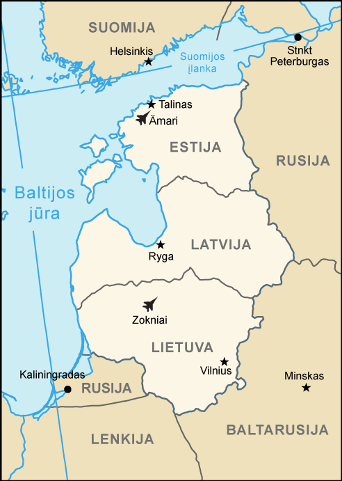 Baltic Air Policing map (Lithuanian version)